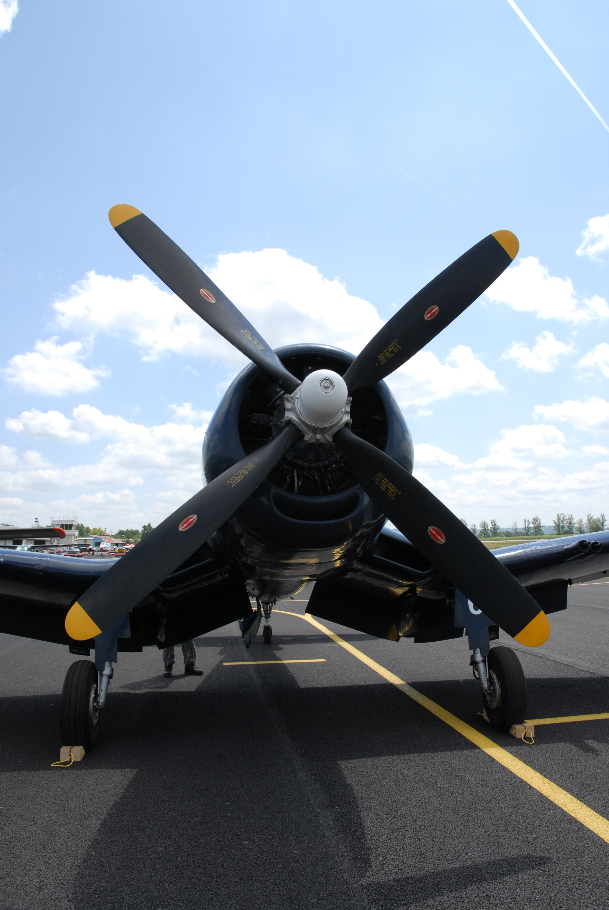 F4U-7 CorsairManufacturerChance VoughtModelF4U-7 CorsairTypemilitaryCharacteristicscarrier-based fighter. Former Argentinian F4U-5NL Bu#124541 modified in the F4U-7 standard with Bu #133704. French Navy's 14F wingRegistration IDF-AZYSOwnerSociété Civile Immobilière F 4 U CorsairBased inLe Castellet